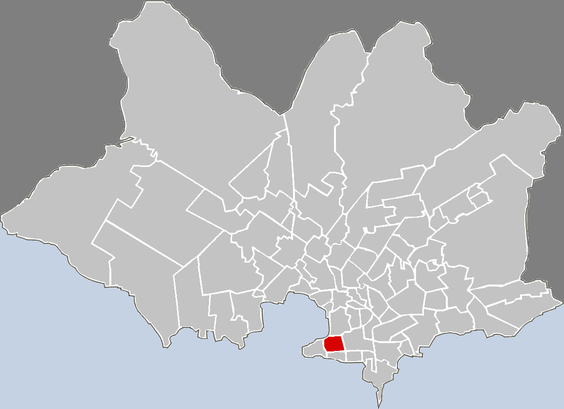 Map highlighting the given barrio in Montevideo.